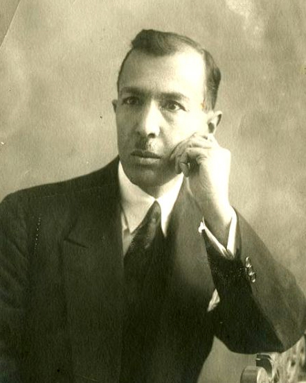 Mohammad Taqi Bahar - Probably in 1920s